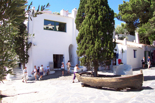 The famous boat-tree in front of the former house of Dali in Port Lligat